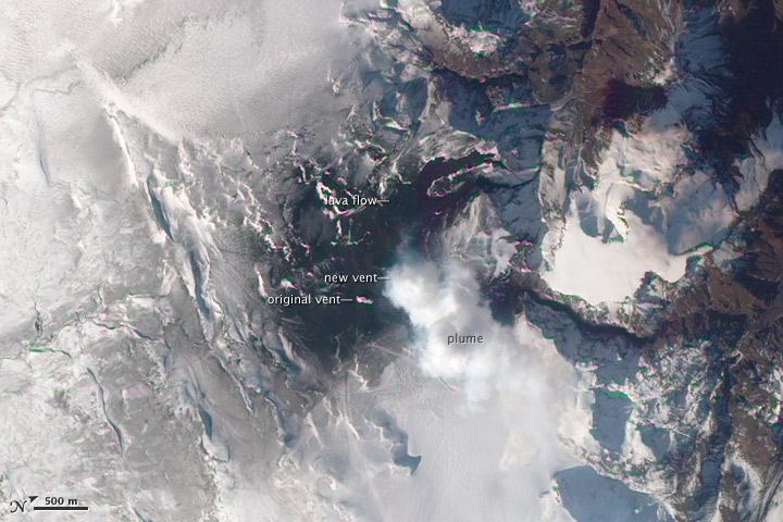 Lava continued to pour out of two fissures near Eyjafjallajökull as the eruption near the Fimmvörduháls Pass entered its third week. This satellite image shows the eruption on April 4, 2010. The original fissure—originally about 1,000 meters (3,000 feet) long and composed of several distinct vents—has coalesced into a single vent. The new fissure is hidden under a volcanic plume, likely composed primarily of steam. Black lava flows reach several kilometers north from the vents, eventually spilling into Hvannárgil and Hrunagil Canyons. This image was acquired by the Advanced Land Imager (ALI) aboard NASA’s Earth Observing-1 (EO-1) satellite.